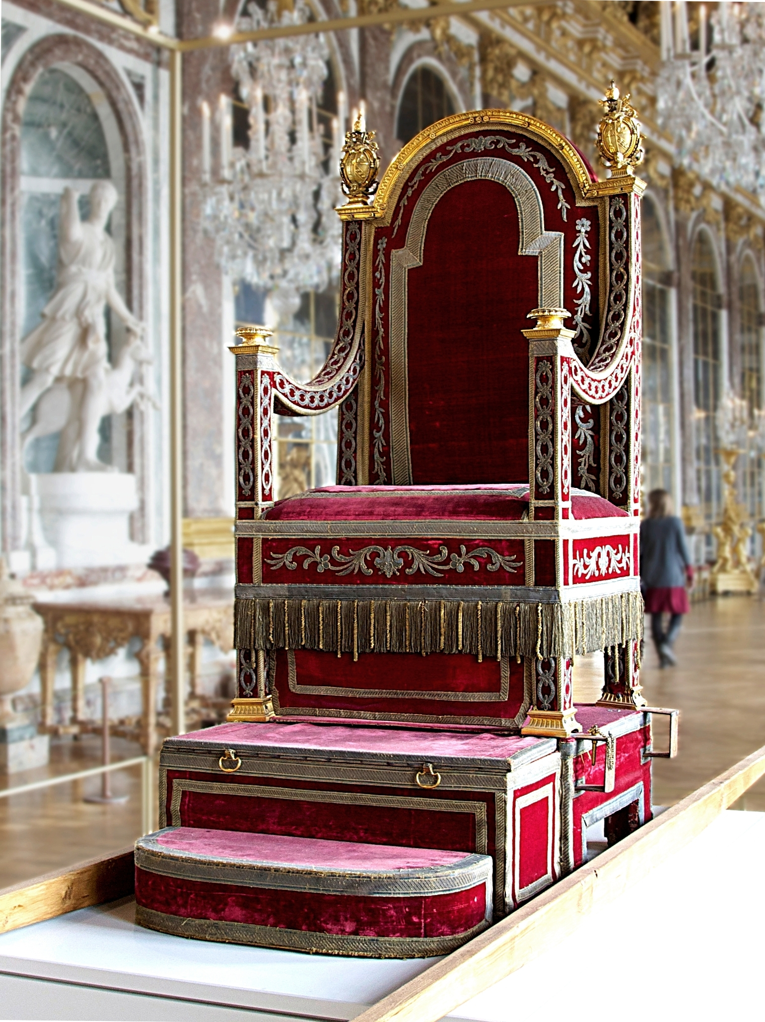 The Sedia Gestatoria (litter) of Pope Pius VII (1800-1823), exhibition of various thrones in Galerie des Glaces of Château de Versailles